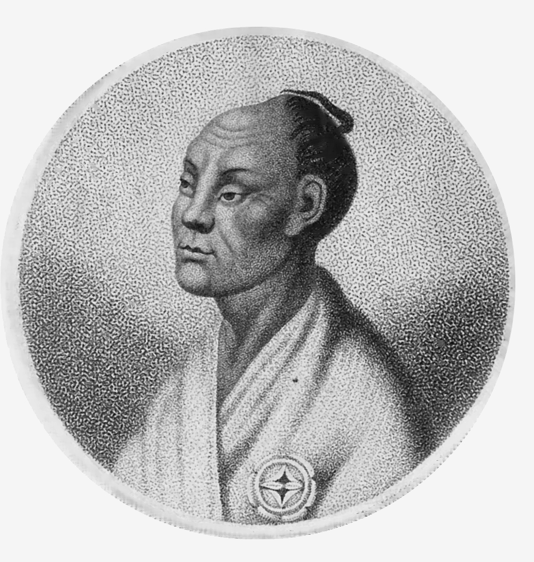 Portrait of the Japanese merchant Takadaya Kahei (高田屋嘉兵衛), labelled as “Takatai Kachi.”